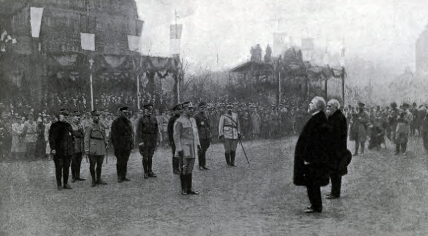 General Pétain becomes Marshal of France in Metz. Behind him are marshals Joffre, Foch and generals Haig, Pershing, Gillian, Albricci and Haller. In front of him are president Poincare and prime minister Clemenceau (big white mustache).